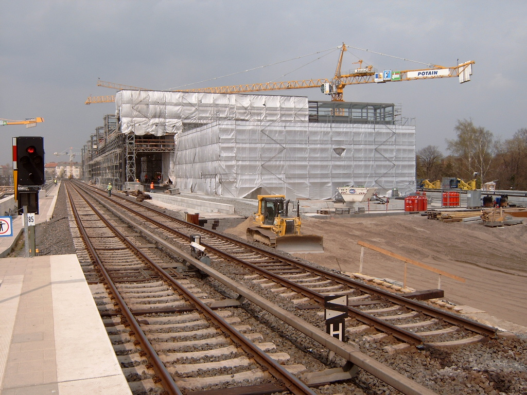 Ringbahnhalle ("Circlerailhall") at the station Südkreuz (formerly Papestraße).